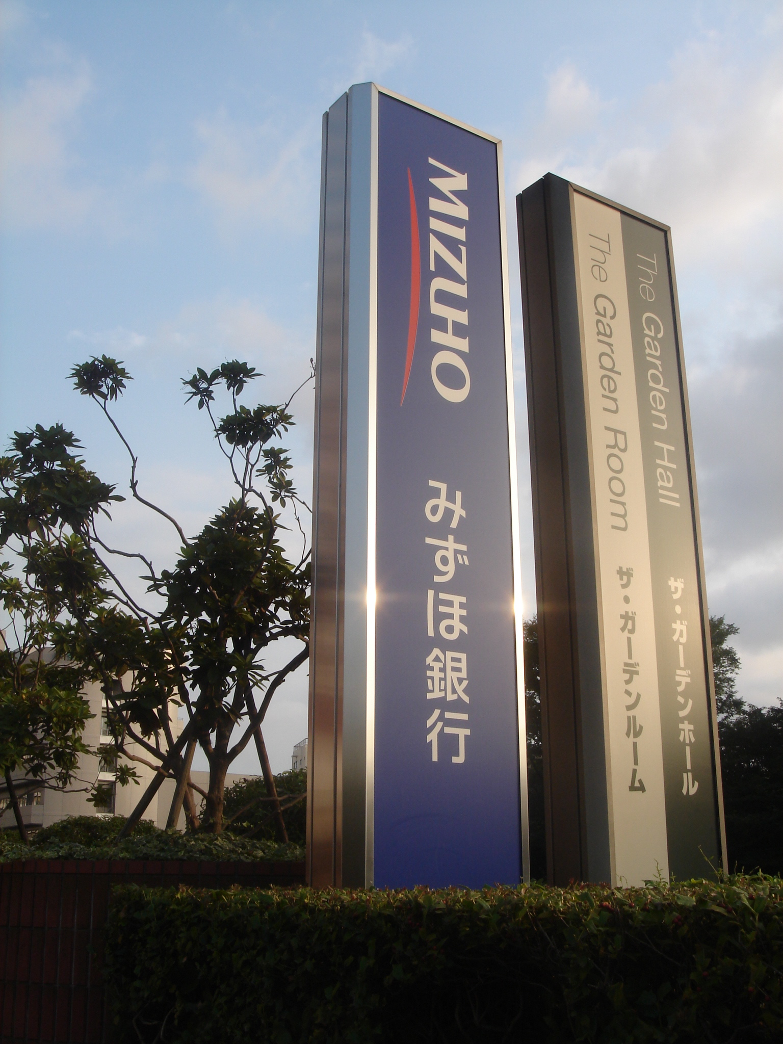 Signboards in Yebisu Garden Place, Tokyo, Japan